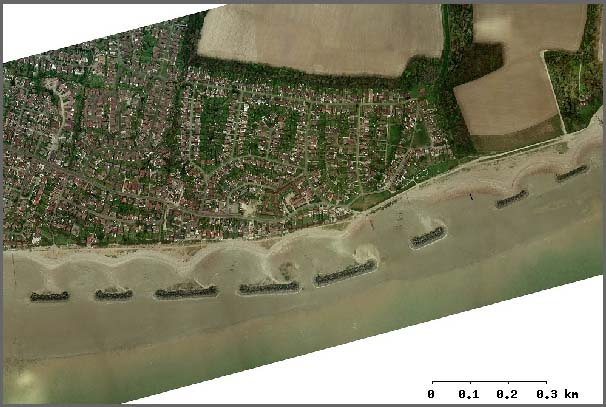 Isle of Wight Centre for the Coastal Environment